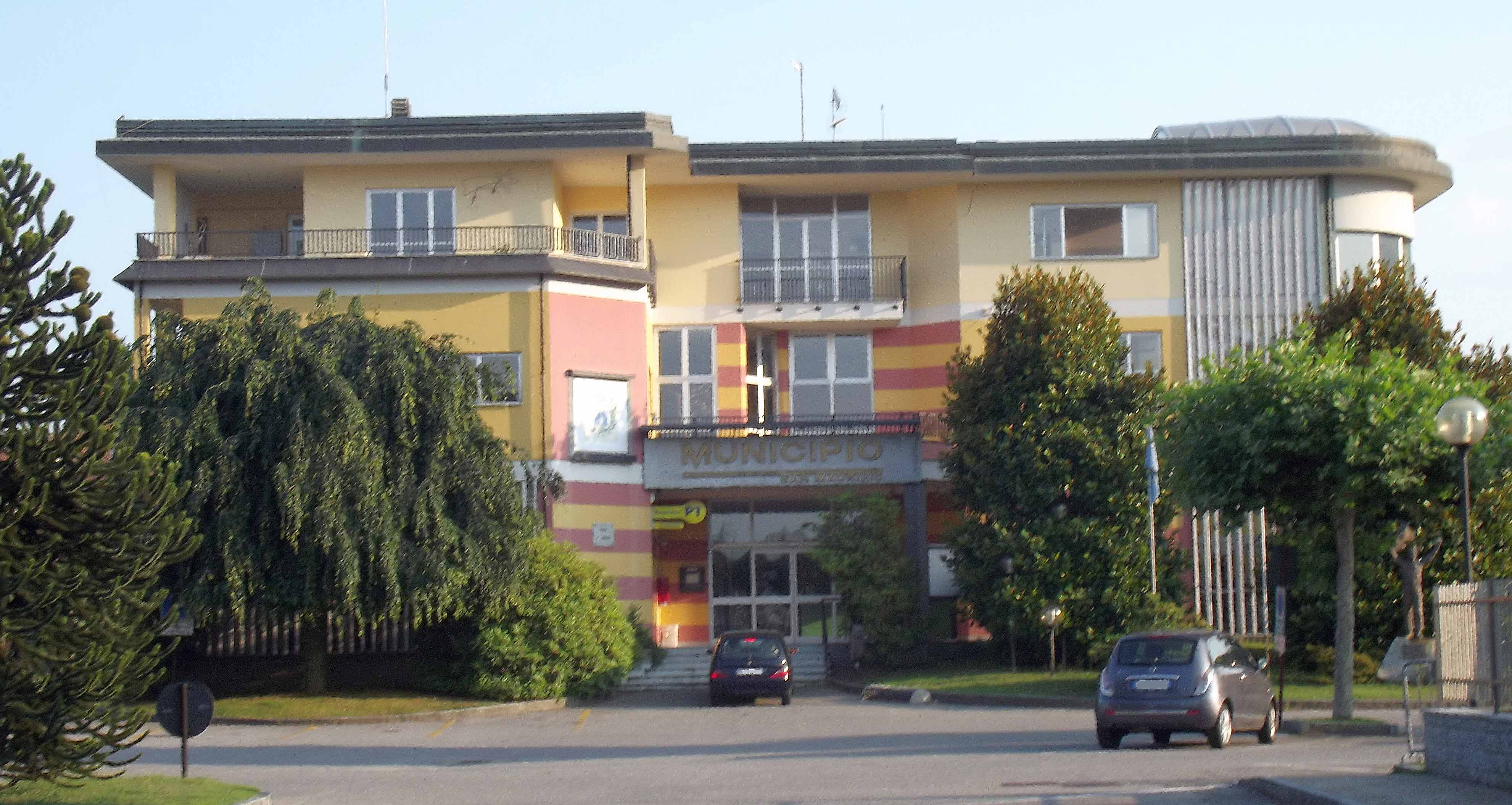 San Maurizio d’Opaglio (NO, Italy): town hall